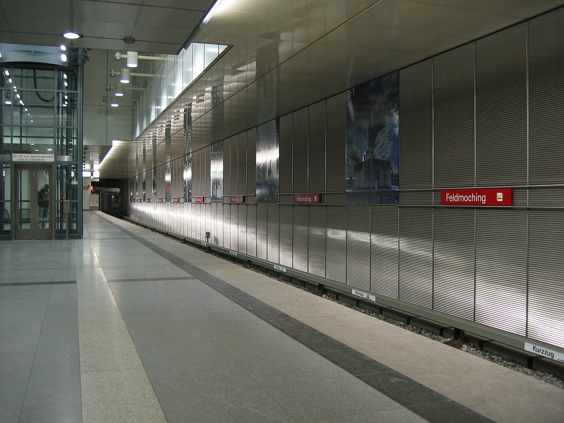 Munich subway station Feldmoching (U2)